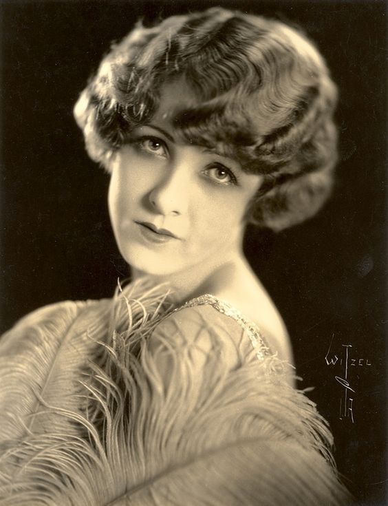 Portrait of American actress Claire Windsor (1892 –1972) by American photographer Albert Witzel (1879–1929).